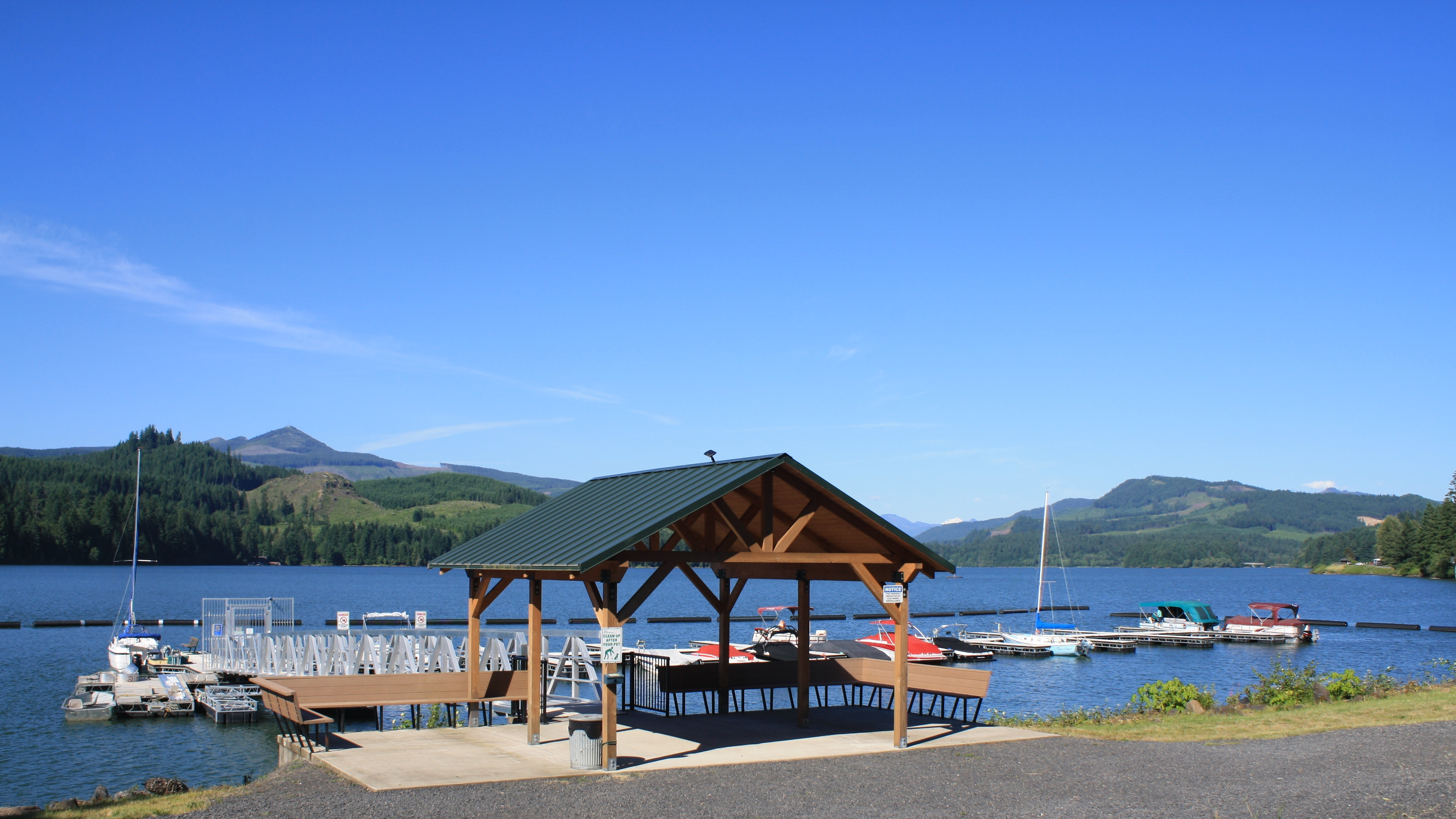 Foster Reservoir Marina in Sweet Home, Oregon